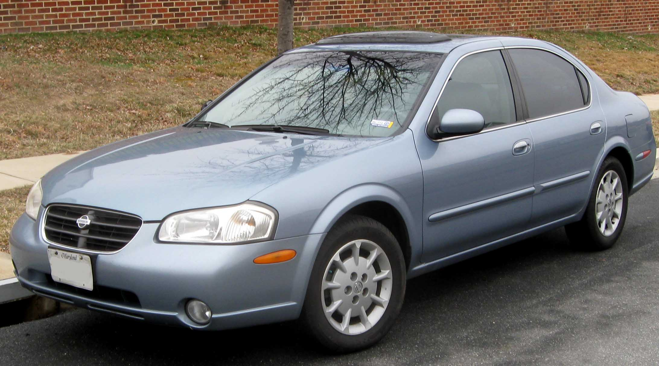 2000-2001 Nissan Maxima photographed in Rockville, Maryland, USA.